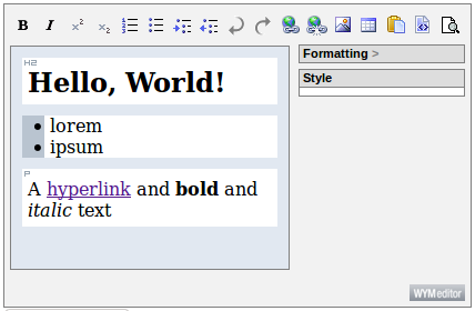 Screenshot of WYMeditor